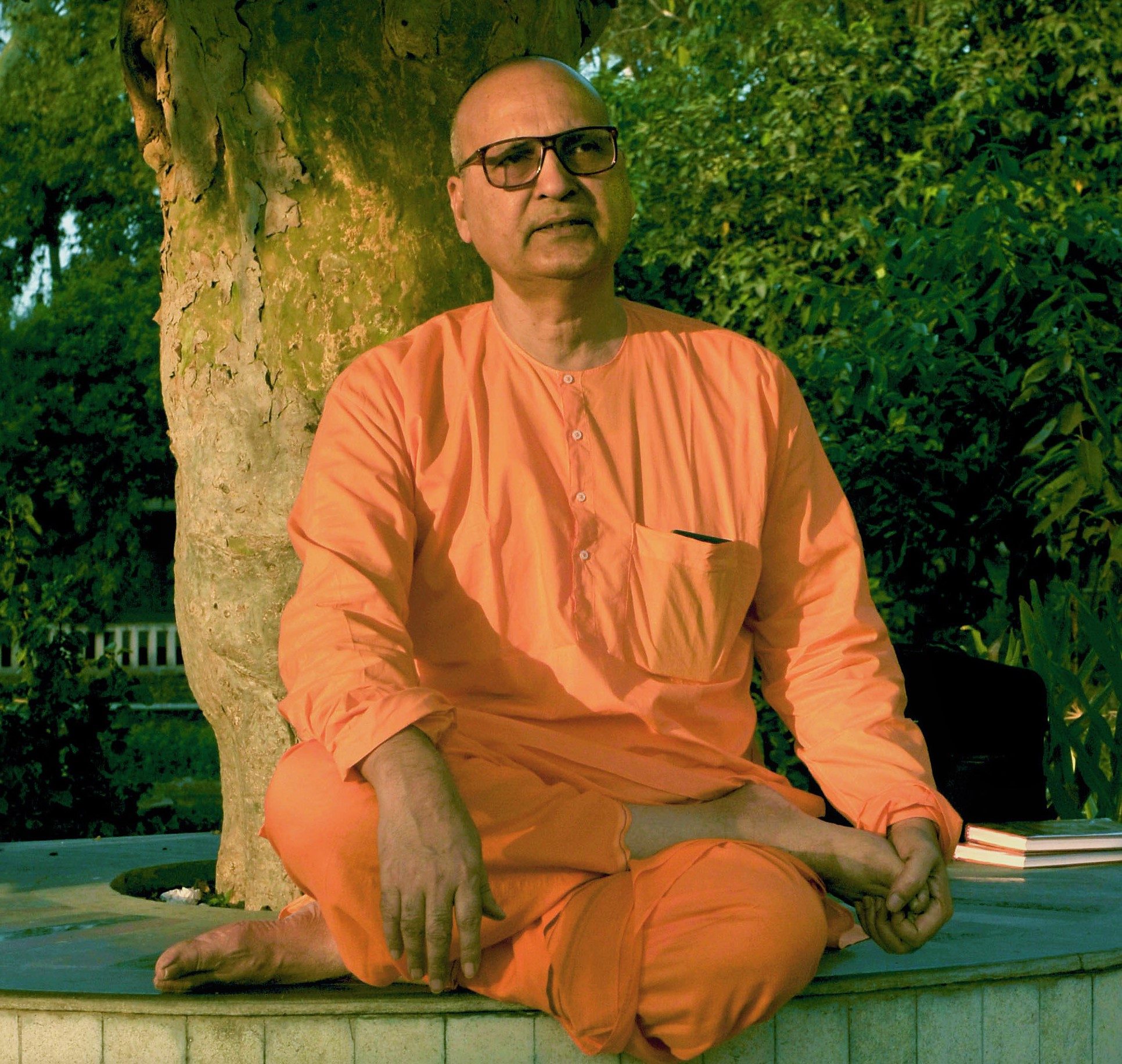 Swami Samarpanananda at Ramakrishna Mission Vivekananda University , Belur Campus